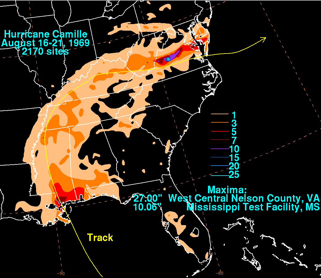 Storm total rainfall map of Hurricane Camille during August 1969.